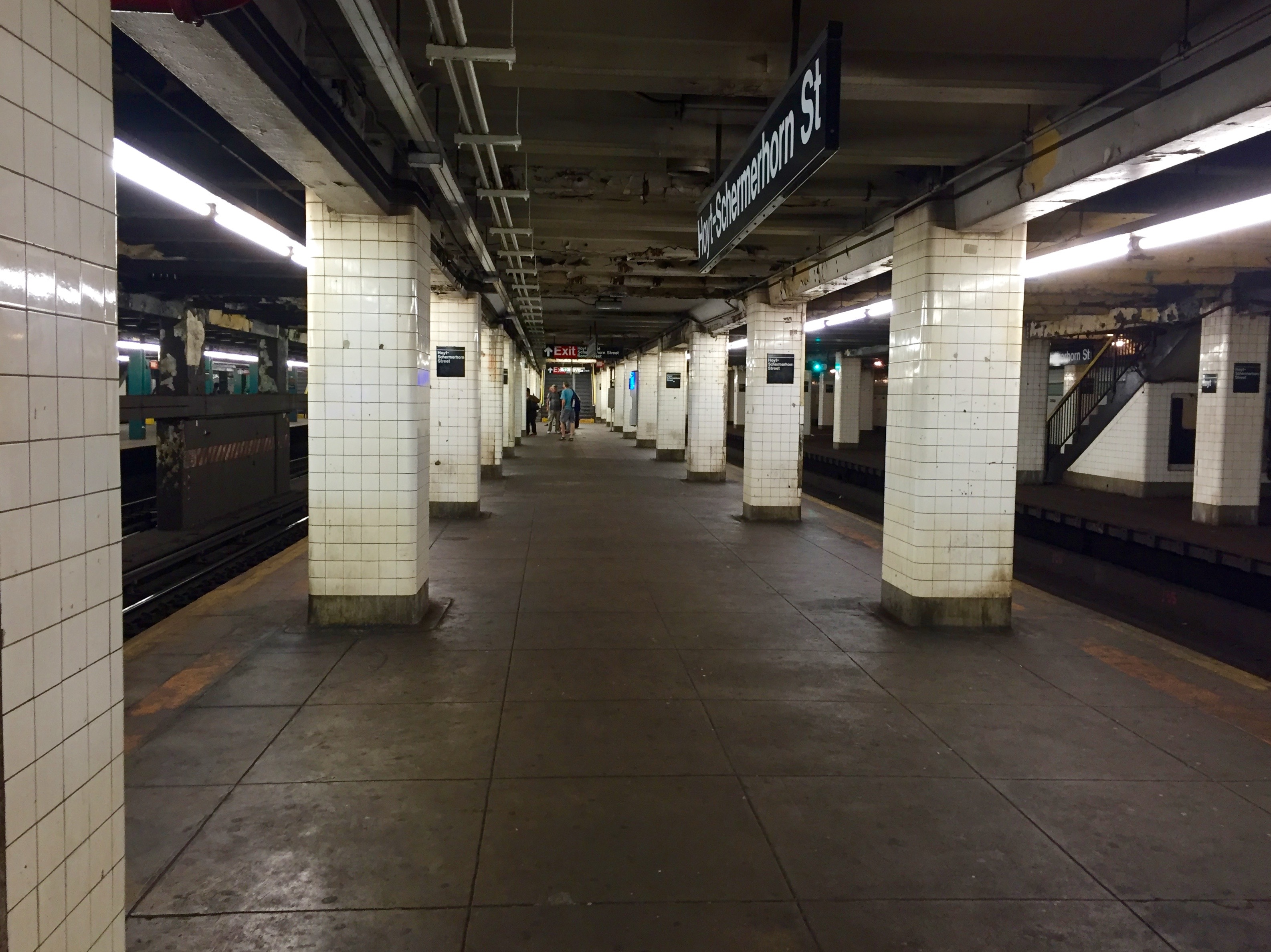 Queens bound platform at Hoyt–Schermerhorn Streets on the A/C/G.